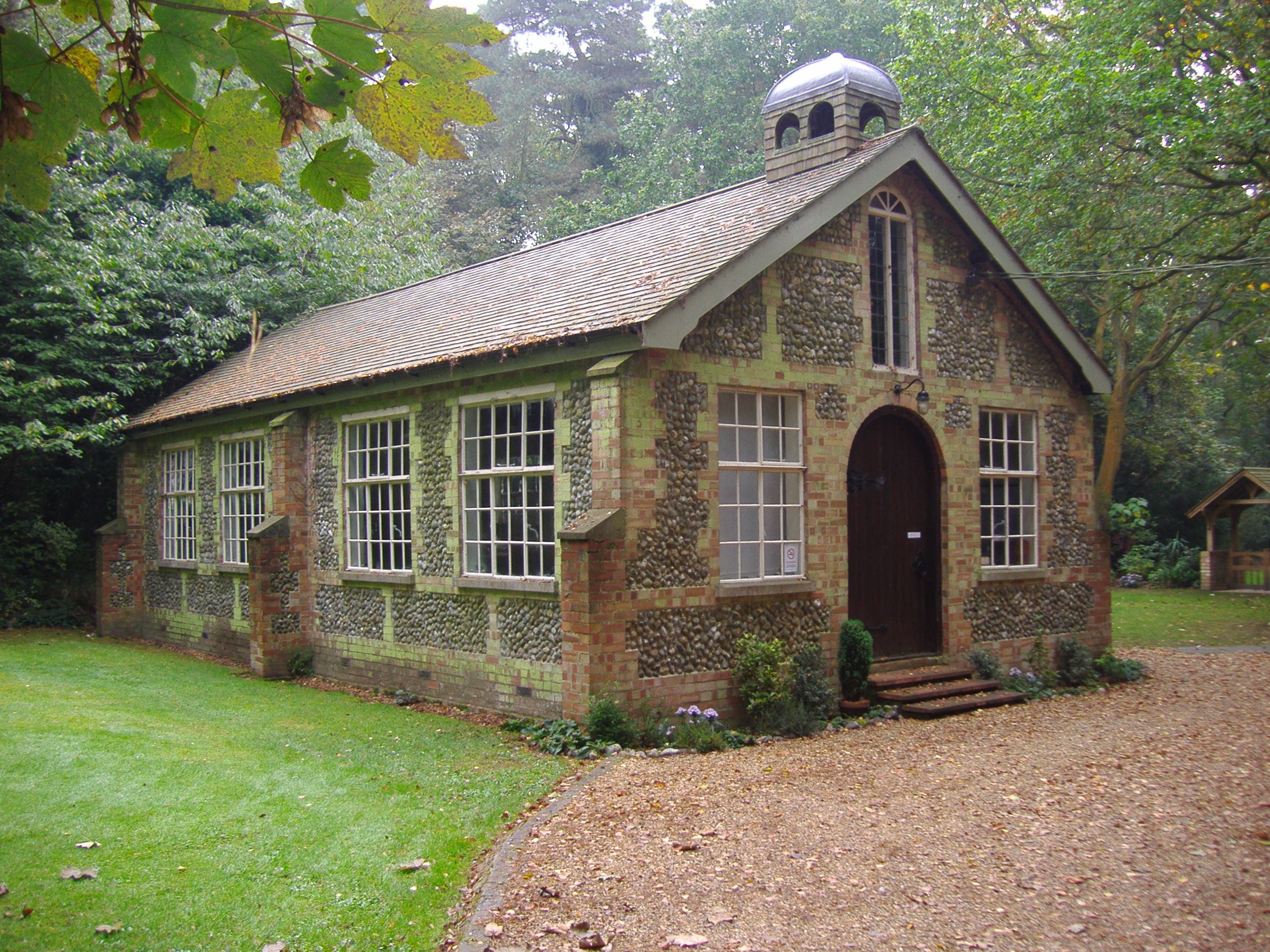 Church High Kelling taken on the 22nd October 2007 , By stavros1